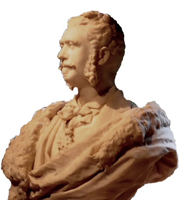 George Barbu Știrbei (Price Georges Știrbey), the Romanian-French politician, art collector, and literary critic; bust done by his wife the Princess Știrbey (Valérie Simonin-Fould, or Gustave Haller). Adapted from Musée Roybet Fould, Courbevoie 004 by User:Moonik, released under Creative Commons Attribution-Share Alike 3.0. Identification of the work as provided by Musée Roybet Fould.